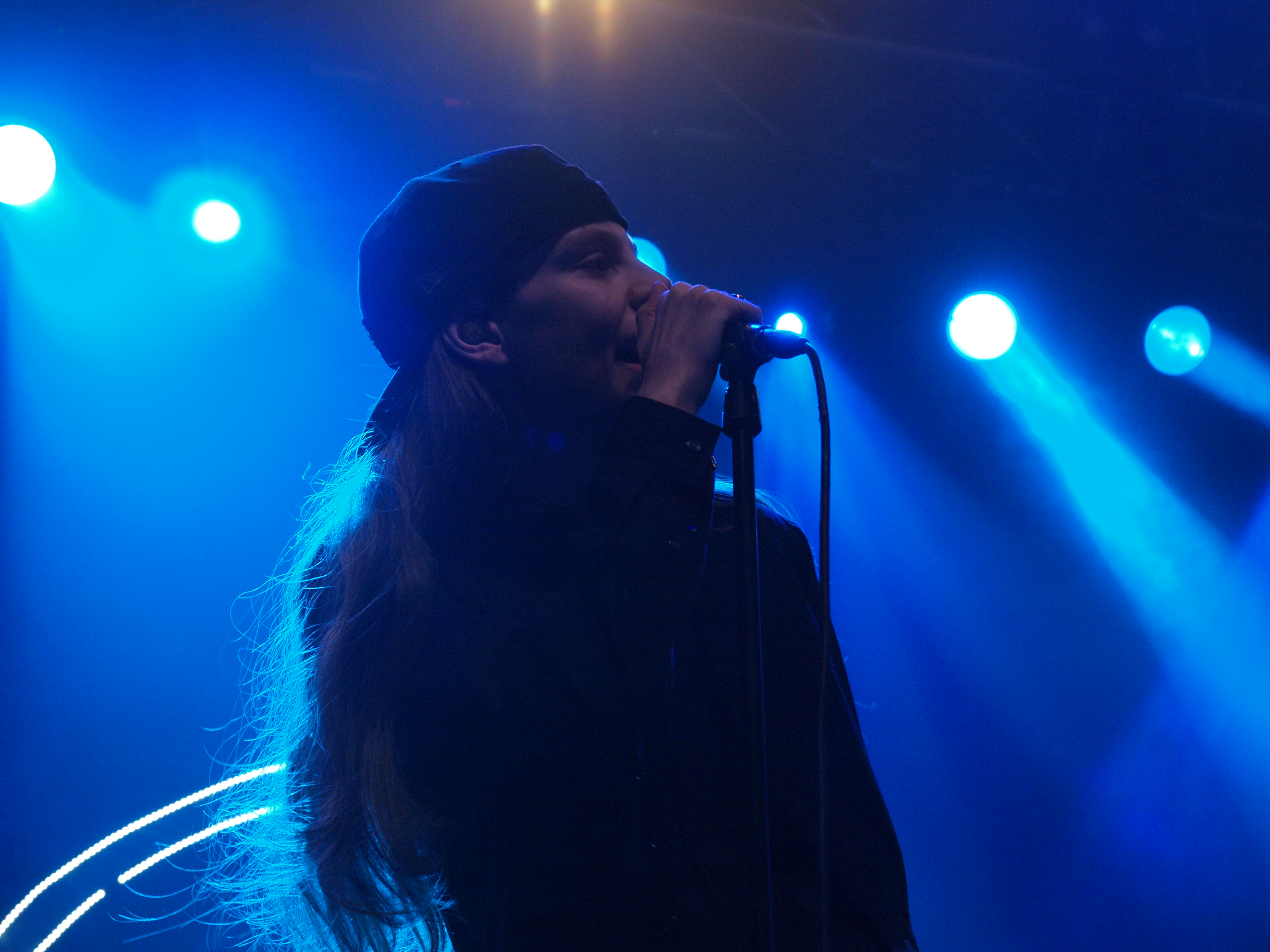 Amoral live at Finnish Metal Expo 2012 in Helsinki